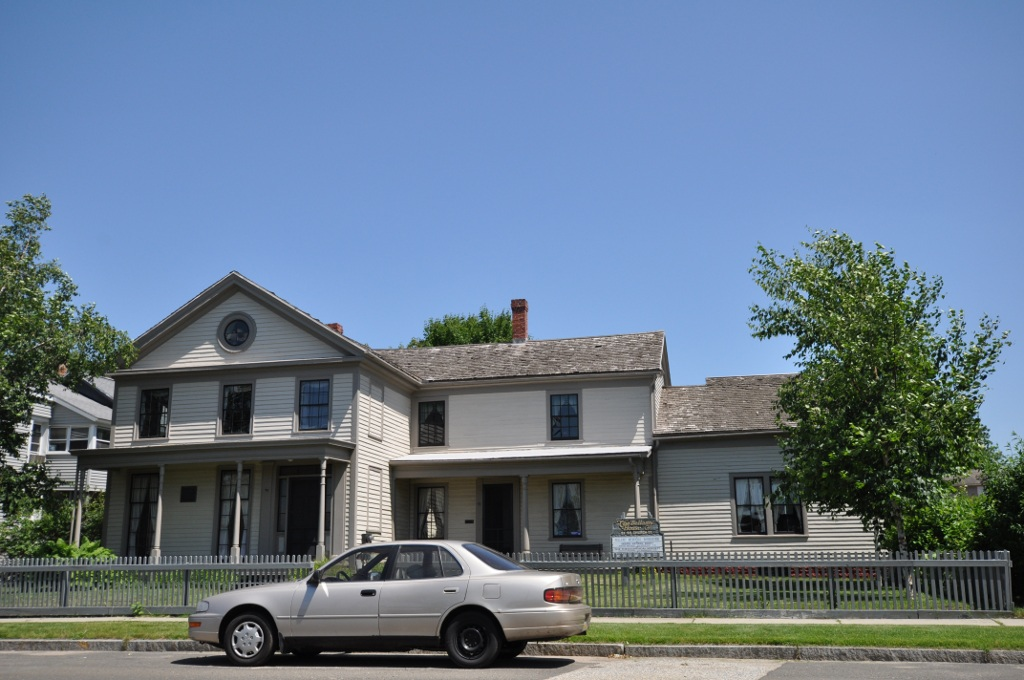 Edward Bellamy House, Chicopee Falls, MA